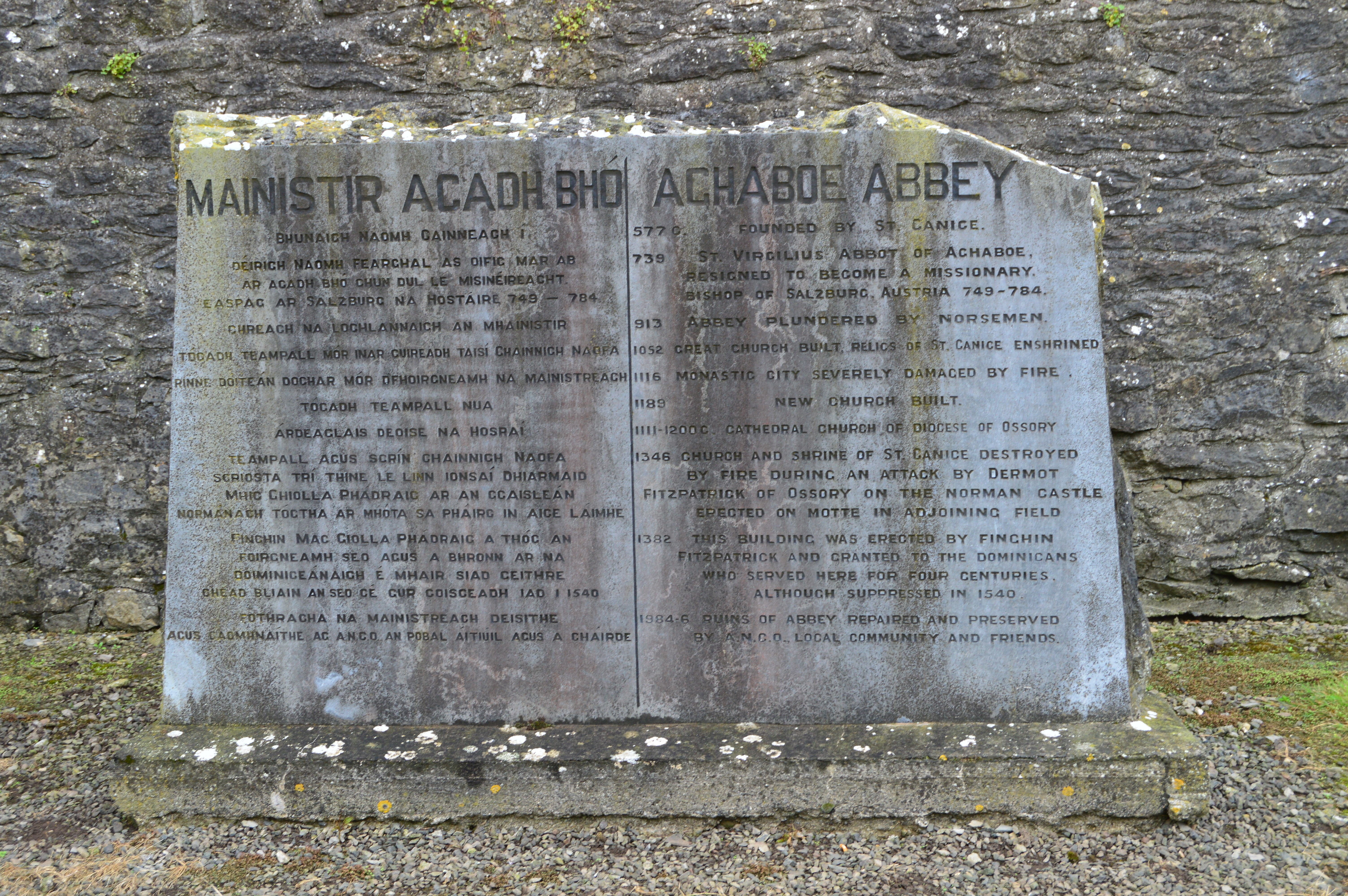 History Plaque at Aghaboe Abbey